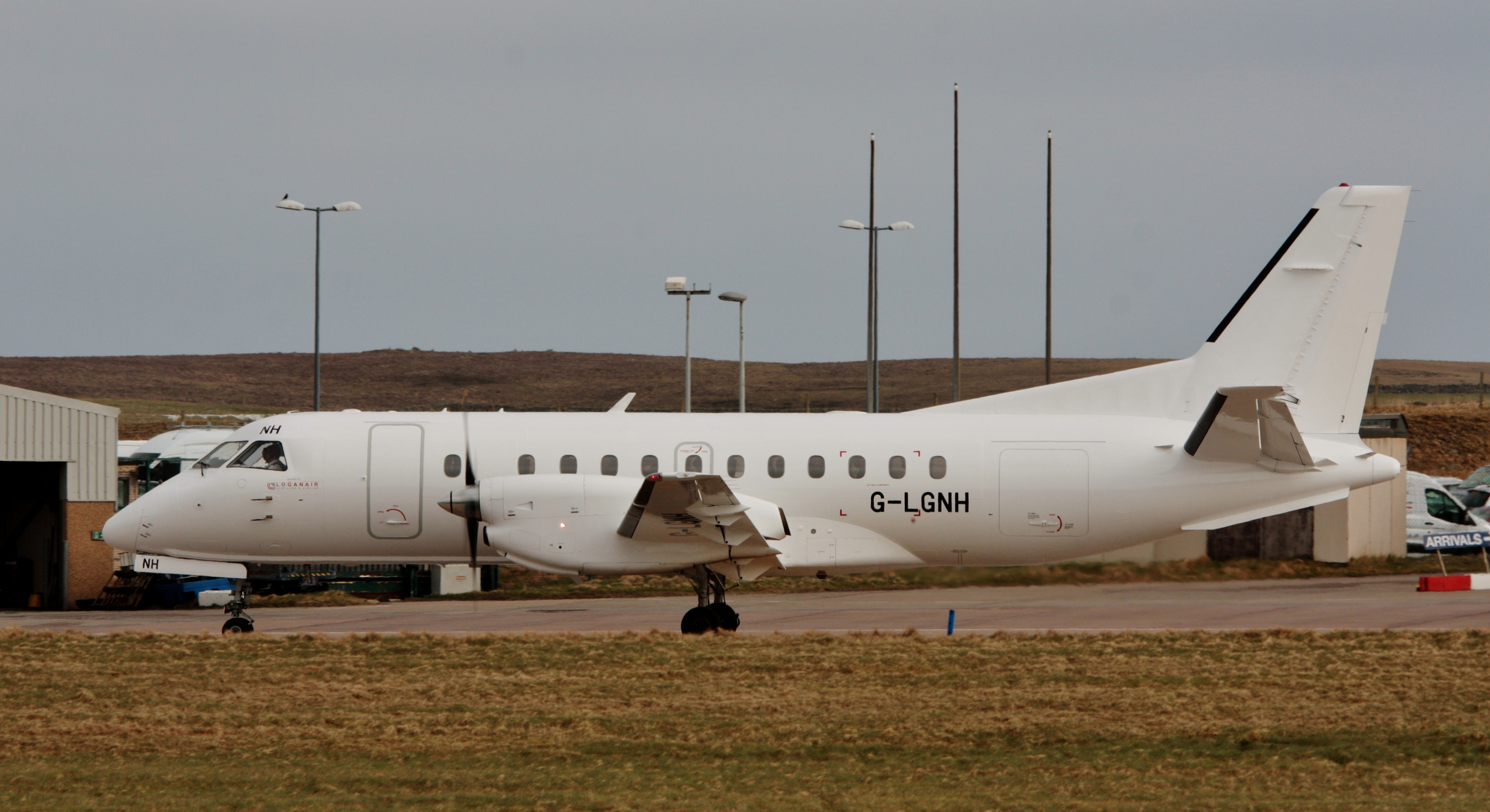 Taxiing for departure from Sumburgh.